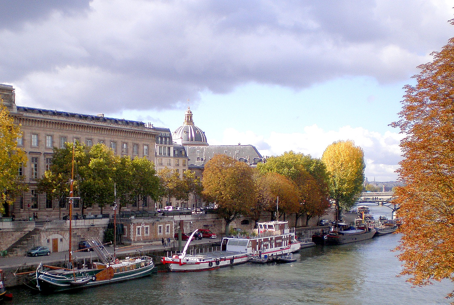 Quai de Conti - Paris